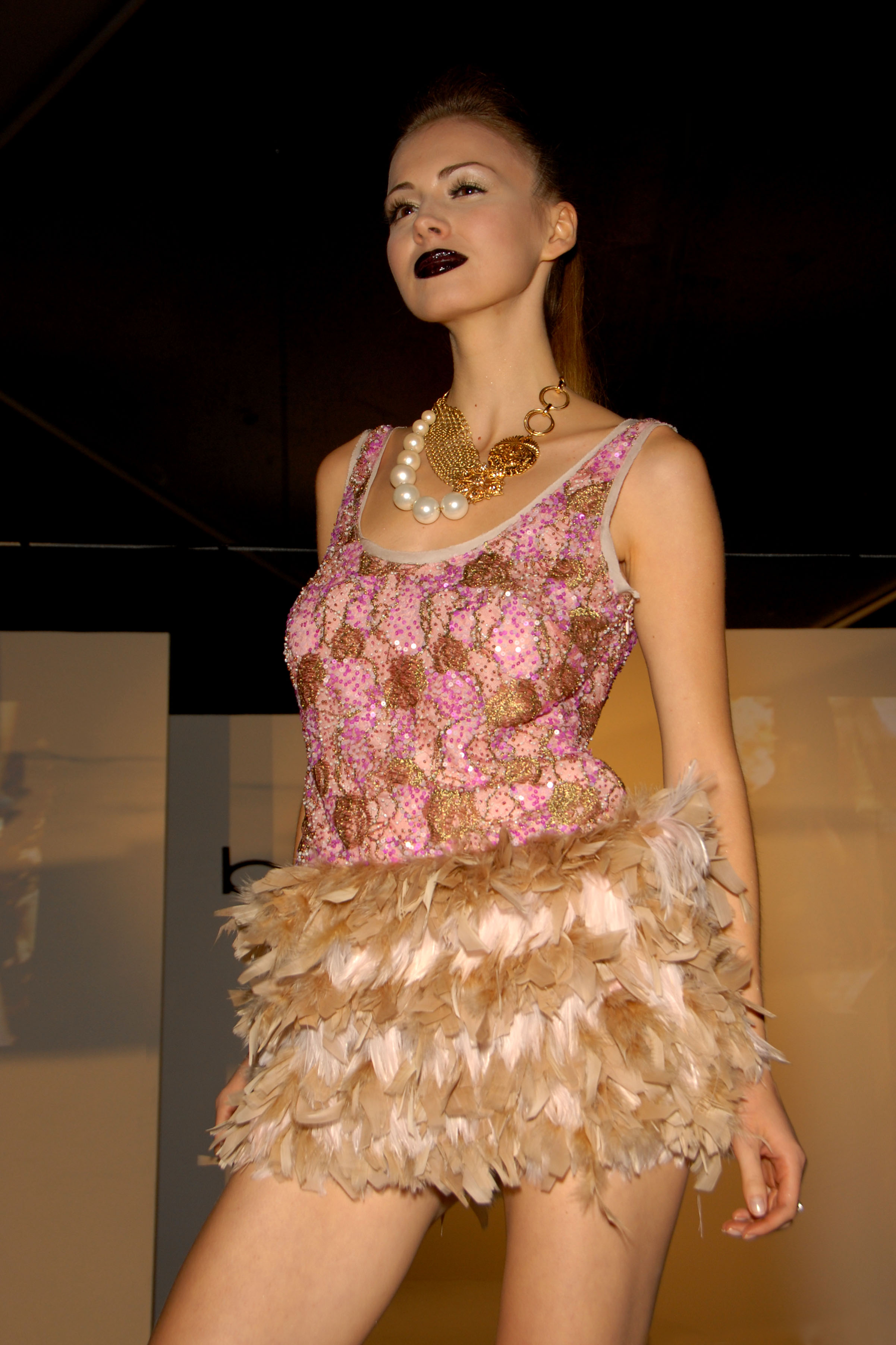 bebe Feather Dress modeled by Olya - Photo by Glenn Francis of